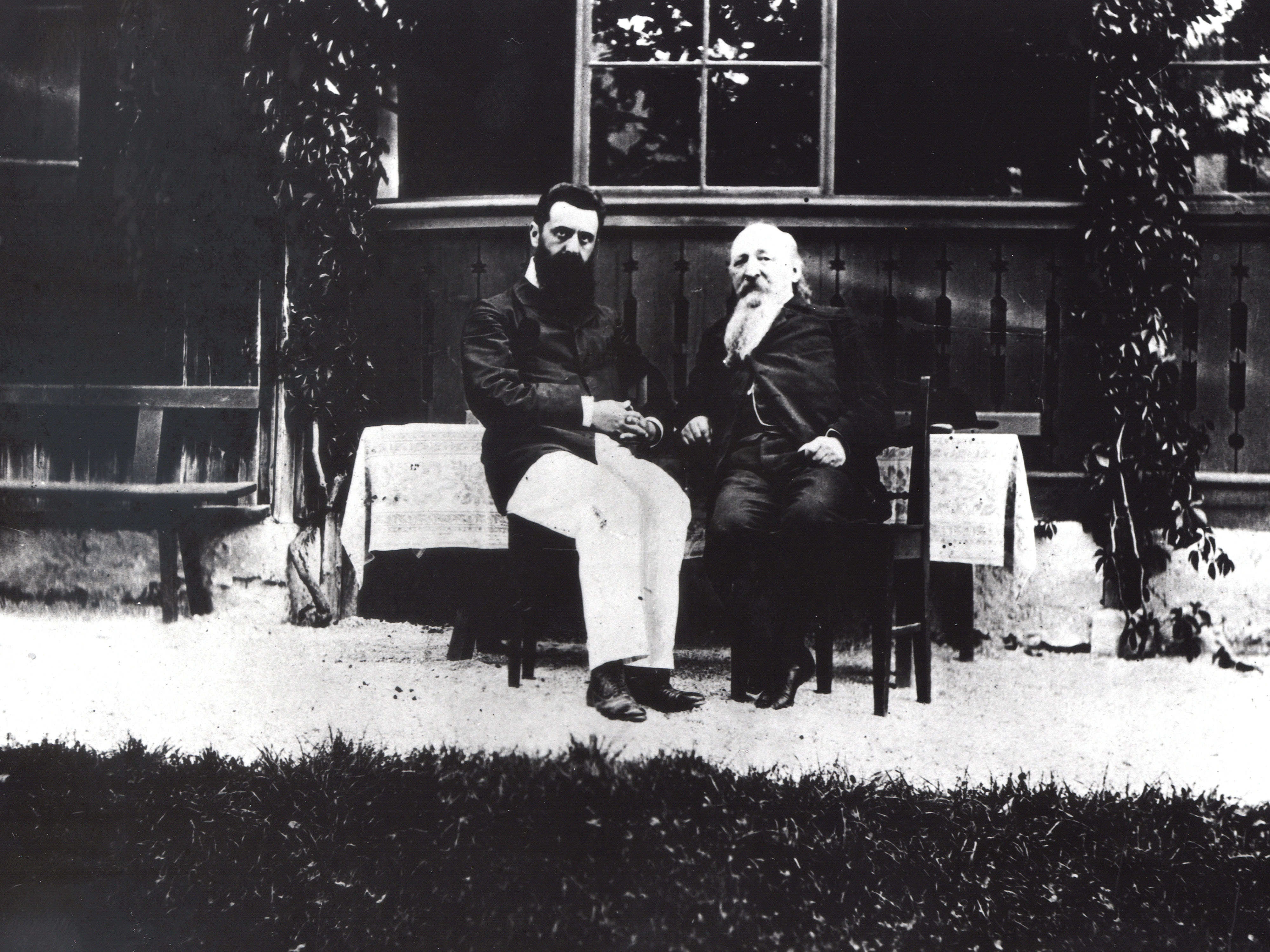 THEODOR HERZL (L) WITH MAX MANDELSTAM, ONE OF THE LEADERS OF RUSSIAN ZIONISTS, IN ALTE OSEZA, AUSTRIA IN 1903. תאודור הרצל עם מכס מנדלשטם, אחד מראשי הציונים ברוסיה, באלט אוסזא באוסטריה. שנת - 1903